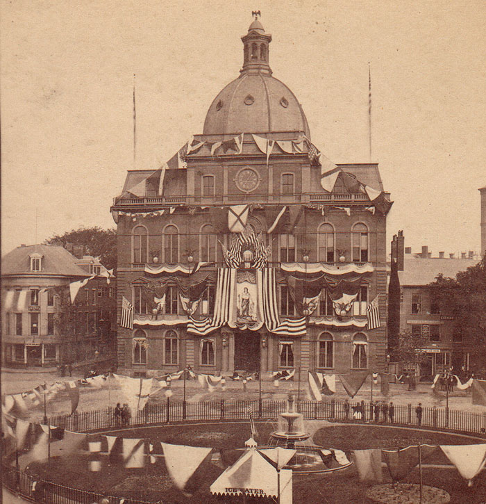 City hall, Charlestown, Boston, Massachusetts, USA.